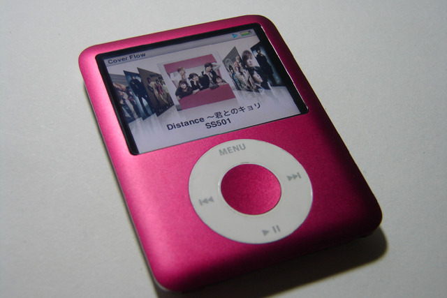 iPod Nano 3Gen (PRODUCT)RED Special Edition Card